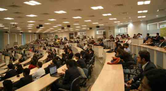 GLIM classroom pic